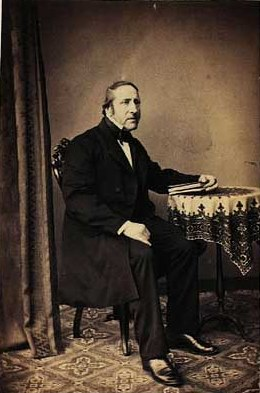 Cosmus Bornemann (1806-1877), Danish supreme court judge